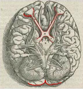 Summary en:1543,Vesalius' Fabrica, Visual system, Eyes, Optic chiasma V1 in red 12:55, 10 December 2005 Ancheta Wis 286x309 (25576 bytes) ( :en:1543 , :en:Vesalius ' Fabrica , :en:Visual system , :en:Eyes , :en:Optic chiasma :en:V1 in red)